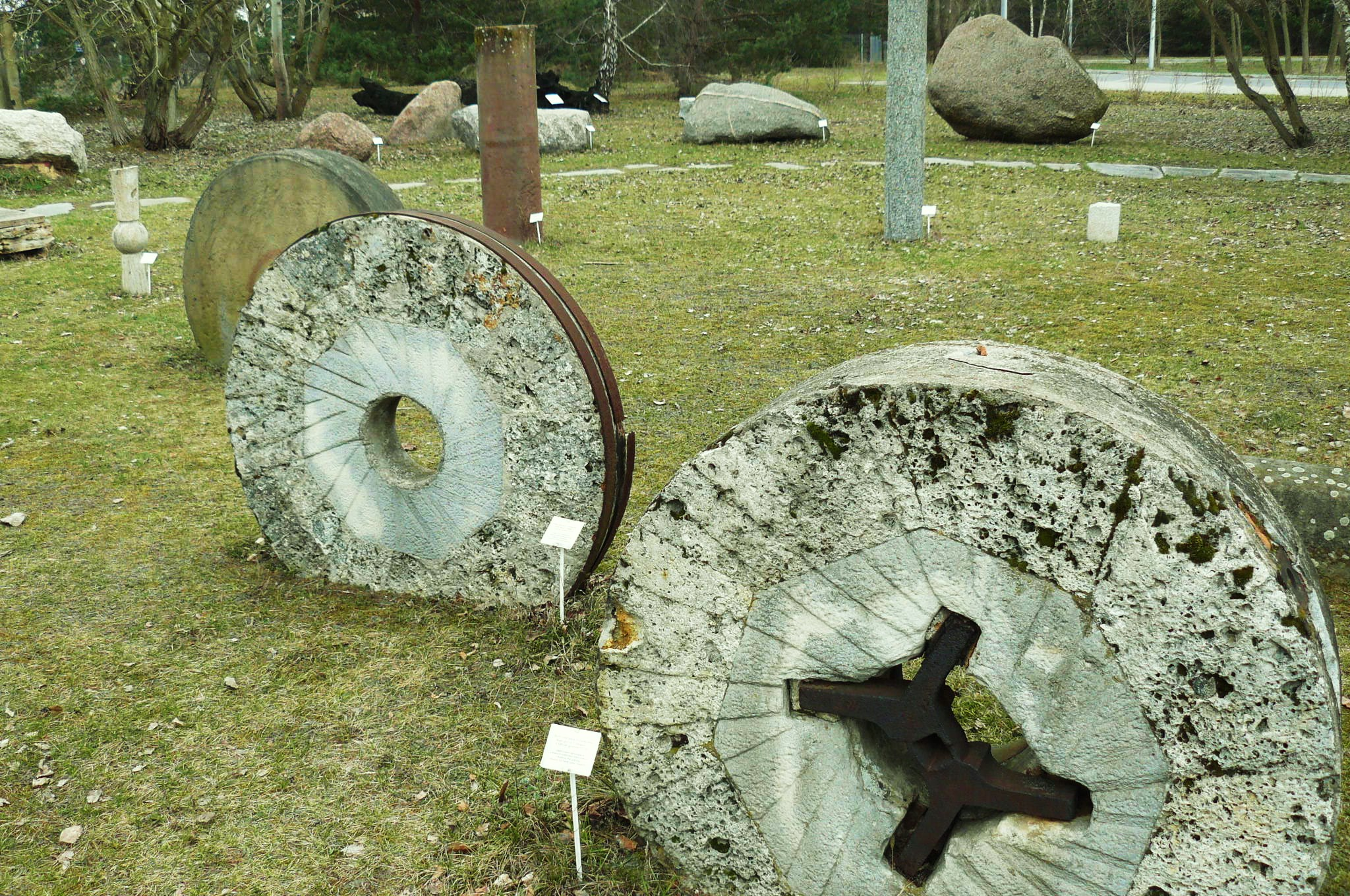 Lapidarium UAM, Poznan, Dziegielowa Street.